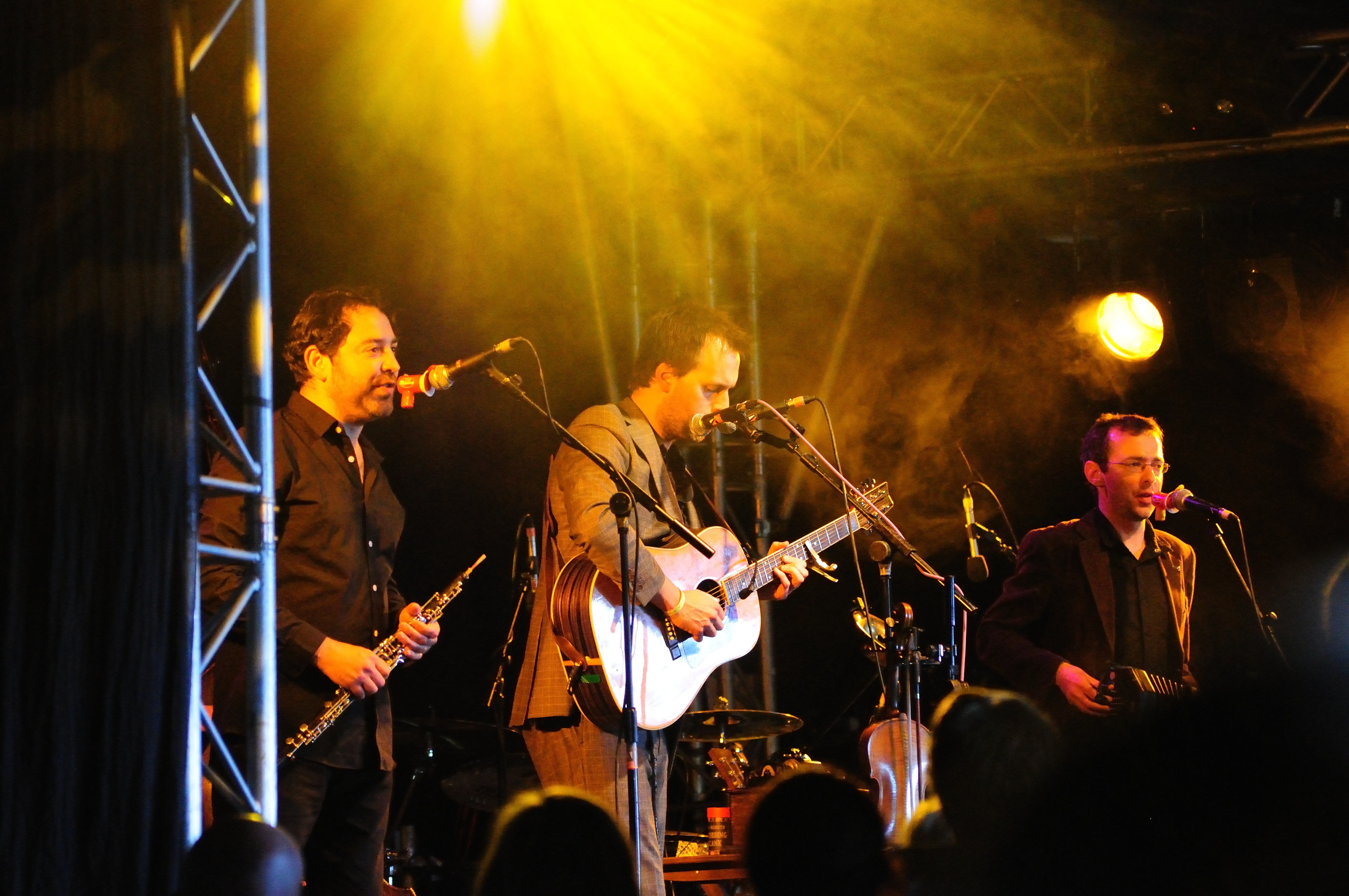 Jon Boden and the Remnant Kings during Big Sessions 2012 in Catton Park, South Derbyshire, UNITED KINGDOM on June 17, 2012.